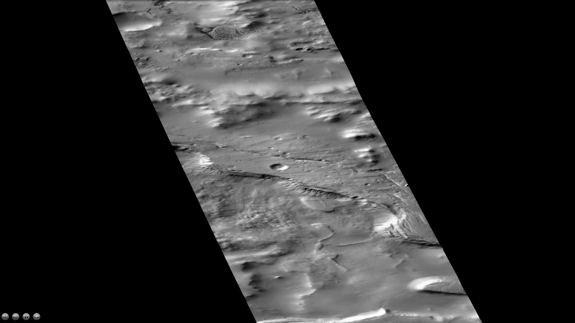 Lyell crater, as seen by ctx